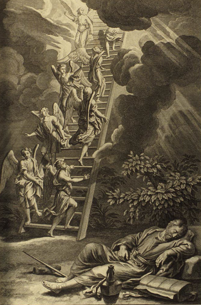 Jacob's Ladder, as in Genesis 28:12; illustration from the 1728 Figures de la Bible; illustrated by Gerard Hoet (1648-1733) and others, and published by P. de Hondt in The Hague; image courtesy Bizzell Bible Collection, University of Oklahoma Libraries